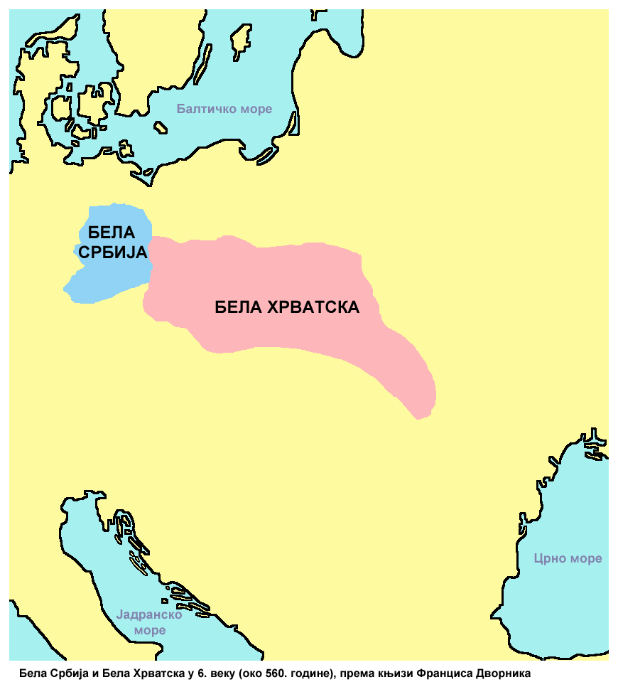 Map showing the White Serbia and White Croatia in the 6th century (around 560), according to the book of Francis Dvornik.